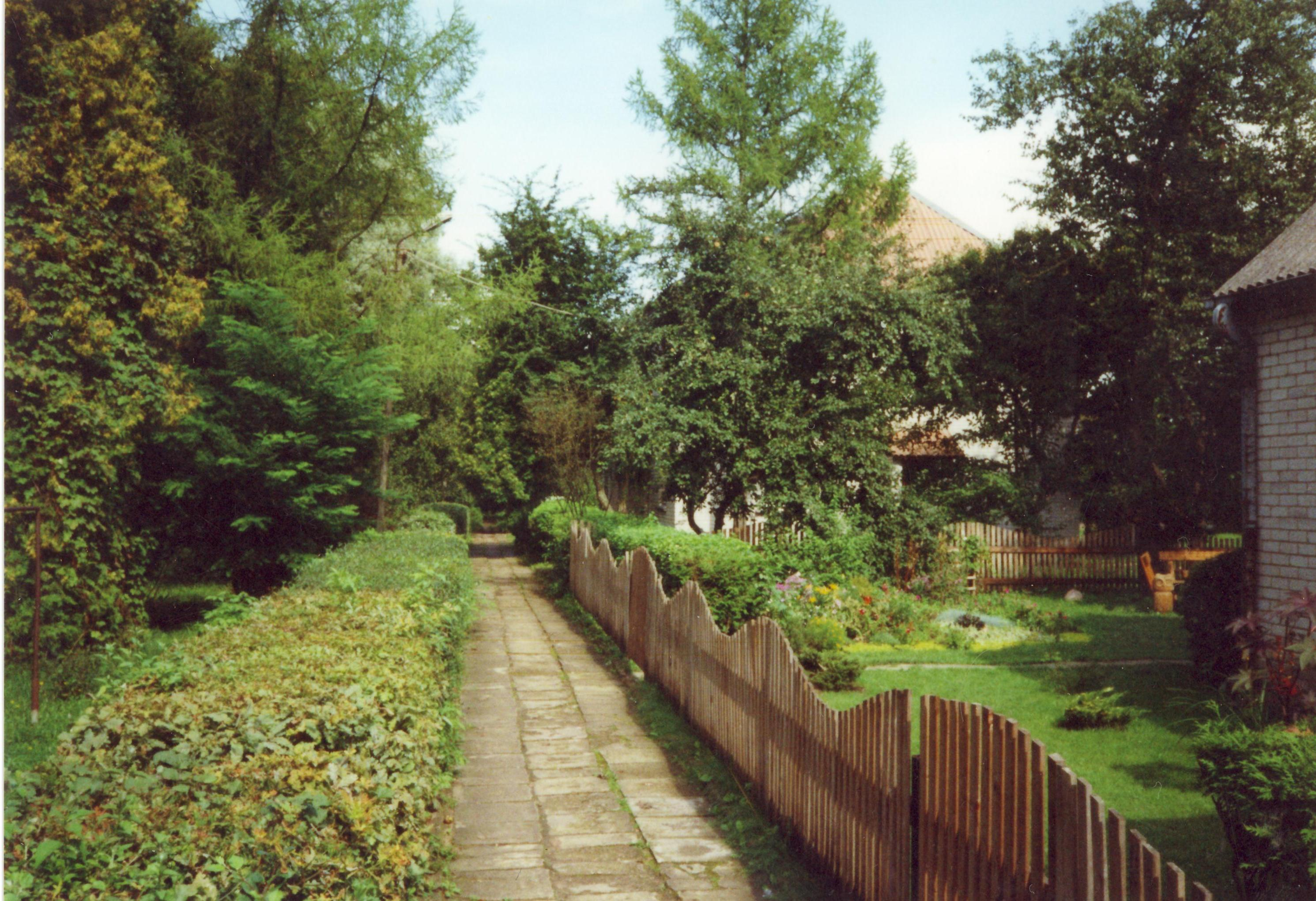 Miškų ūkis, Jonava